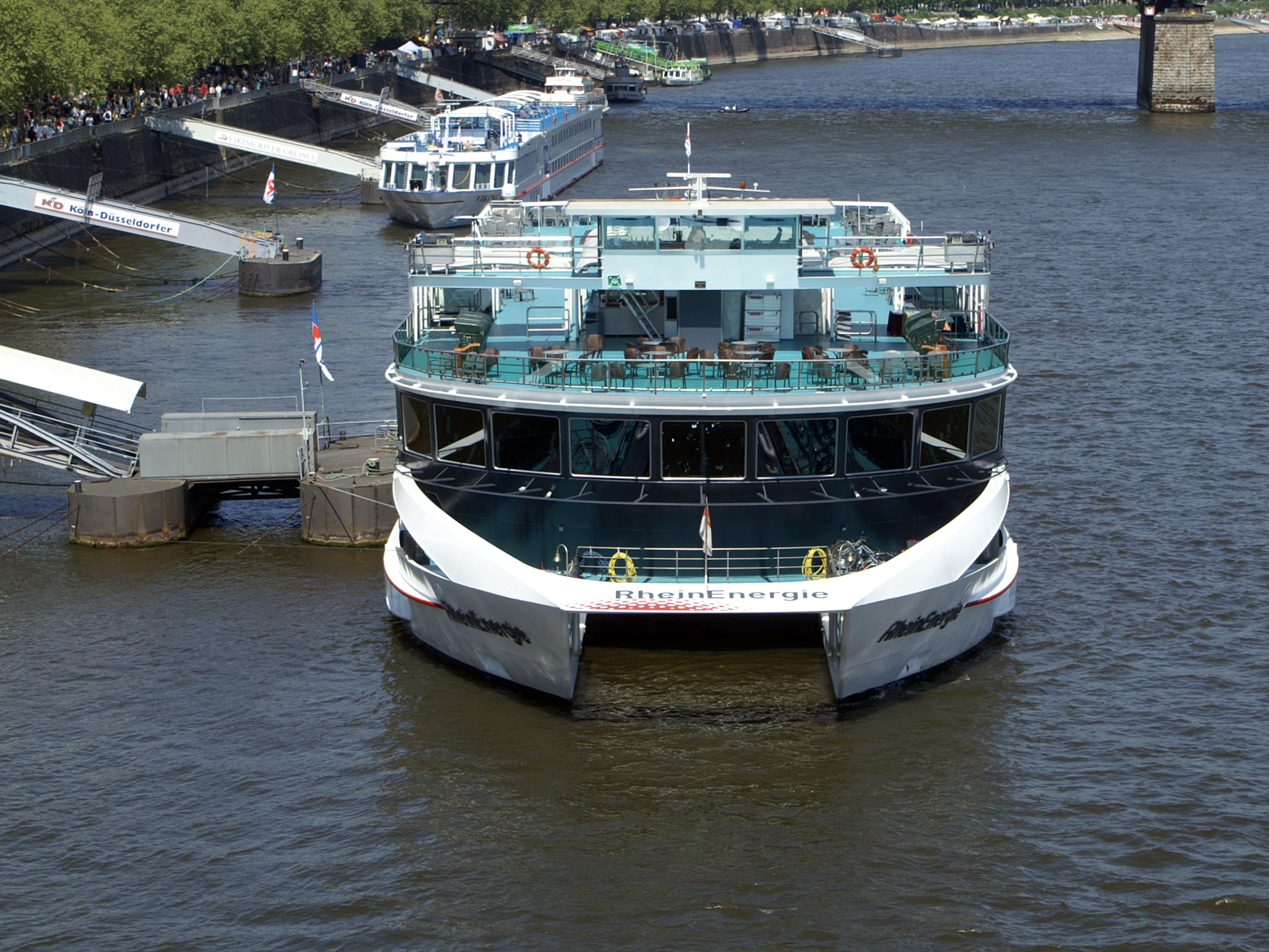 Day trip and Evenship RheinEnergie in cologne.